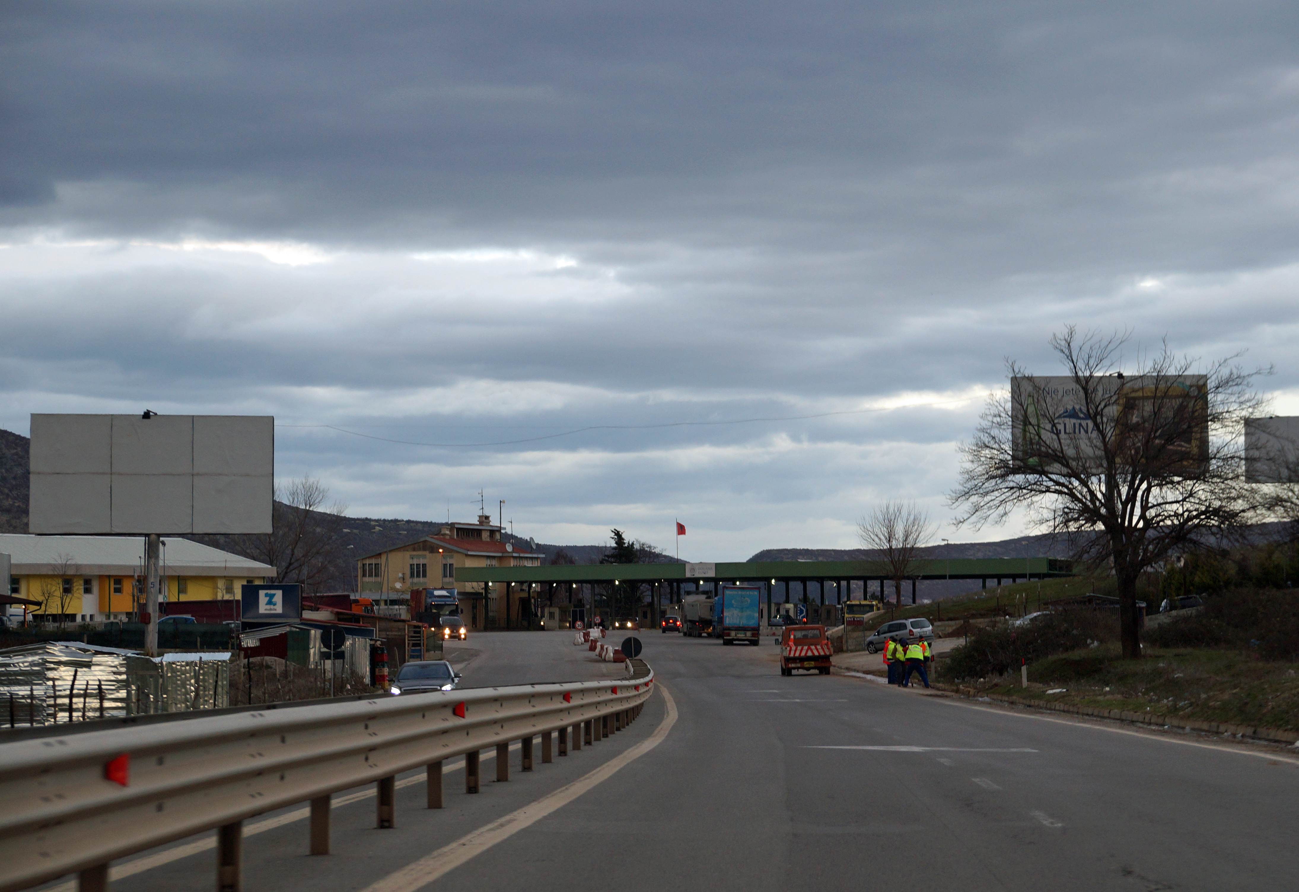 Border crossing of Albania with Kosovo in Morina, Albanian side